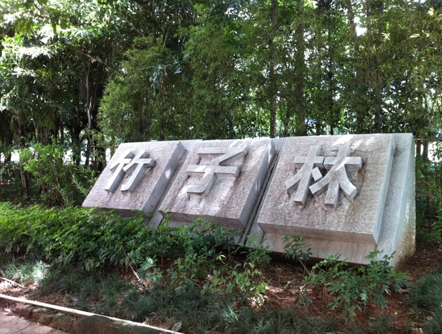 photoed by binye86755 on September 13th 2014 at Zhuzilin, Shenzhen